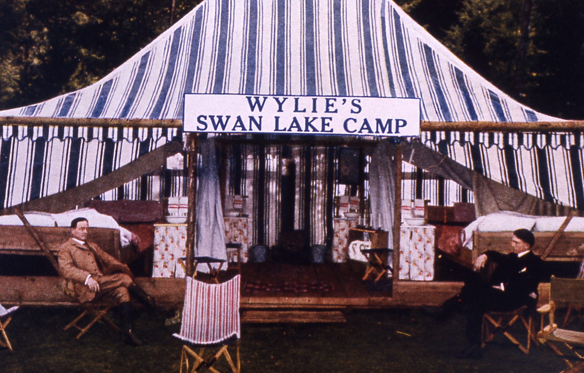 Wylie's Swan Lake Camp, Yellowstone National Park, ca 1900